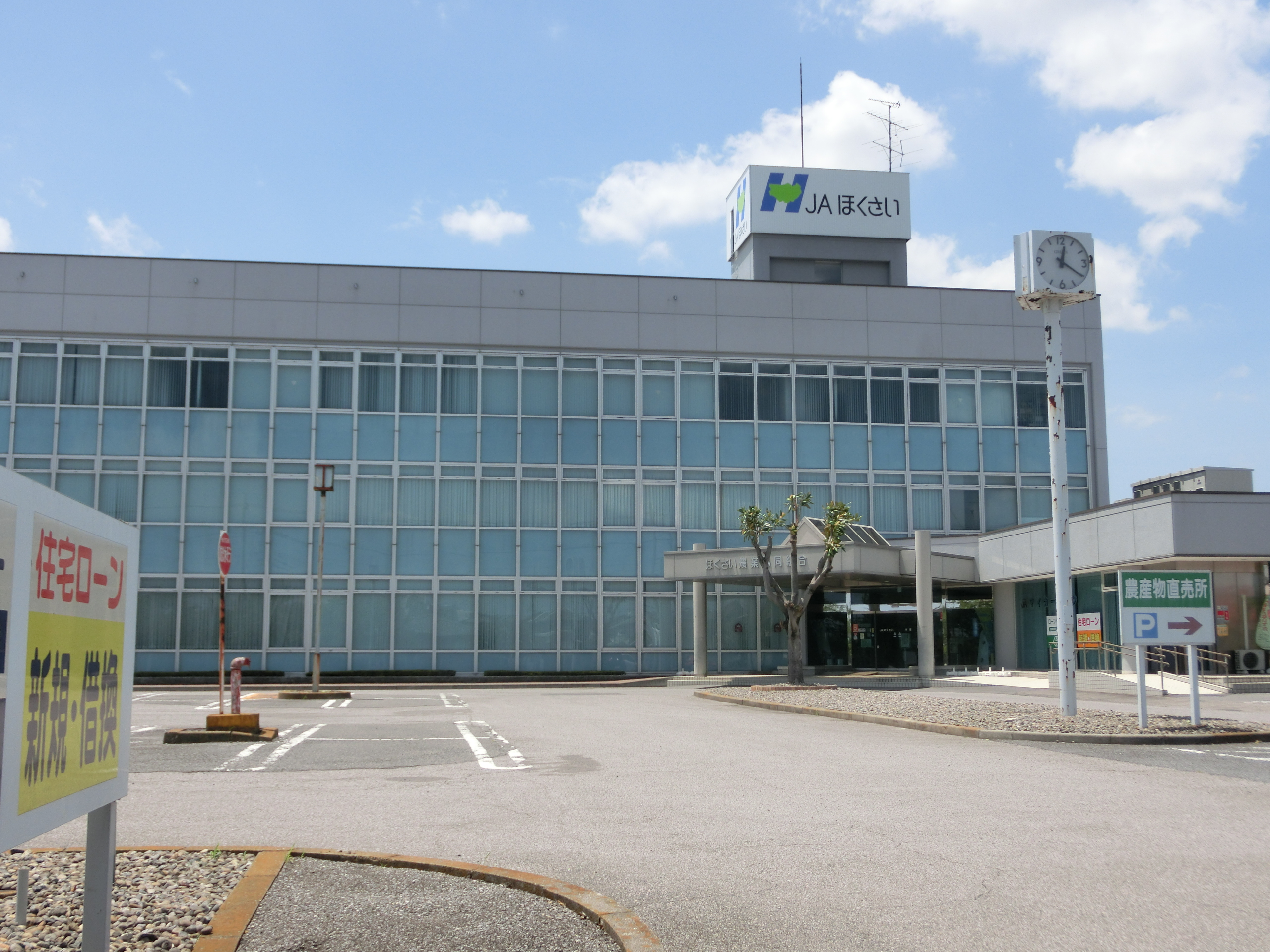 JA Hokusai Headquarters